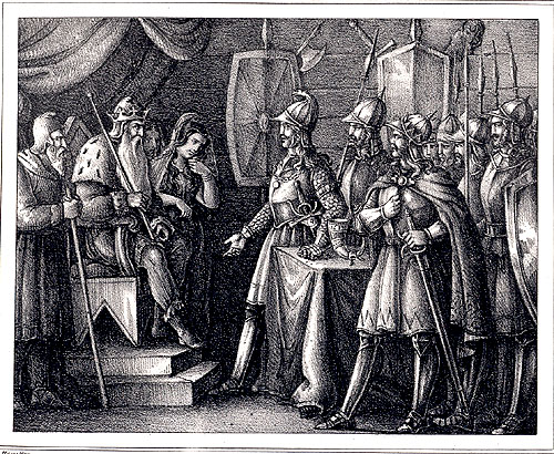 Captioned as "Hjalmar friar till Ingeborg (Konung Ane den gamles Dotter) på samma gång som Hjorvard", according to the source page. Etching by Hugo Hamilton, depicting Hjalmar proposing to Ingeborg. Original image size approximately 17 x 22 cm.